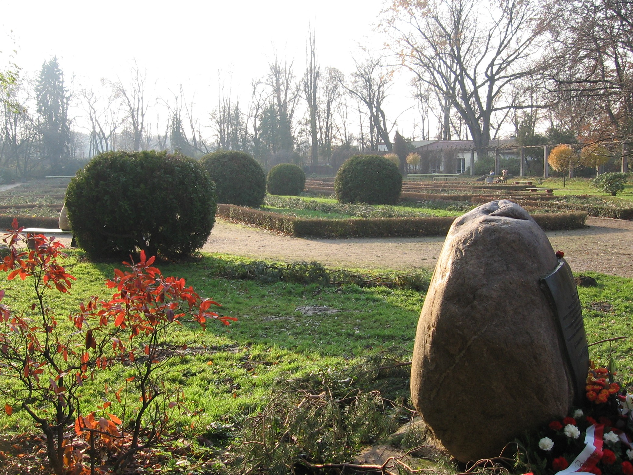 British flyers monument in front of rosarium, Skaryszewski Park, Warsaw, Poland